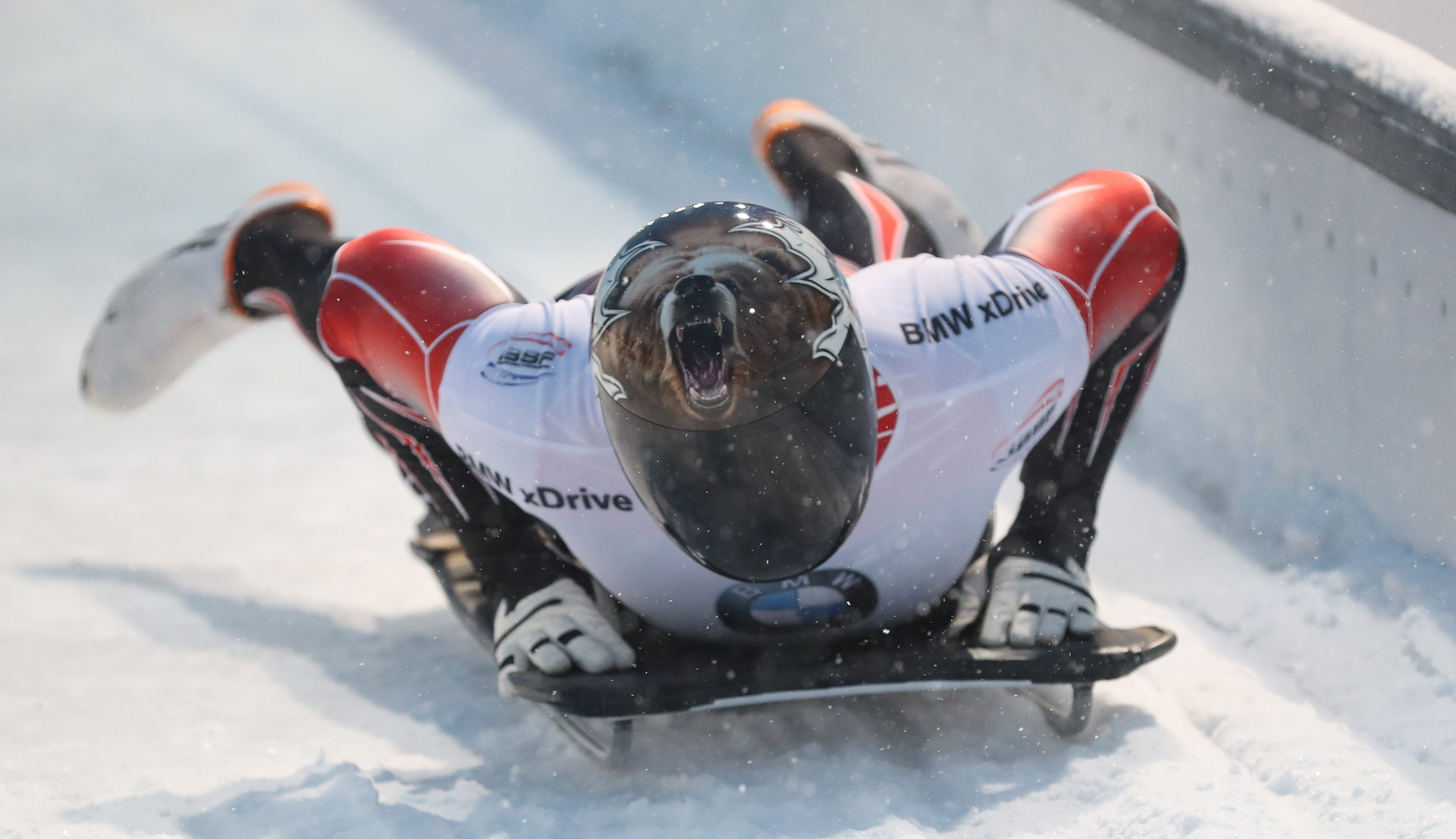 Men's World Cup race at the 2018/19 Skeleton World Cup in Altenberg